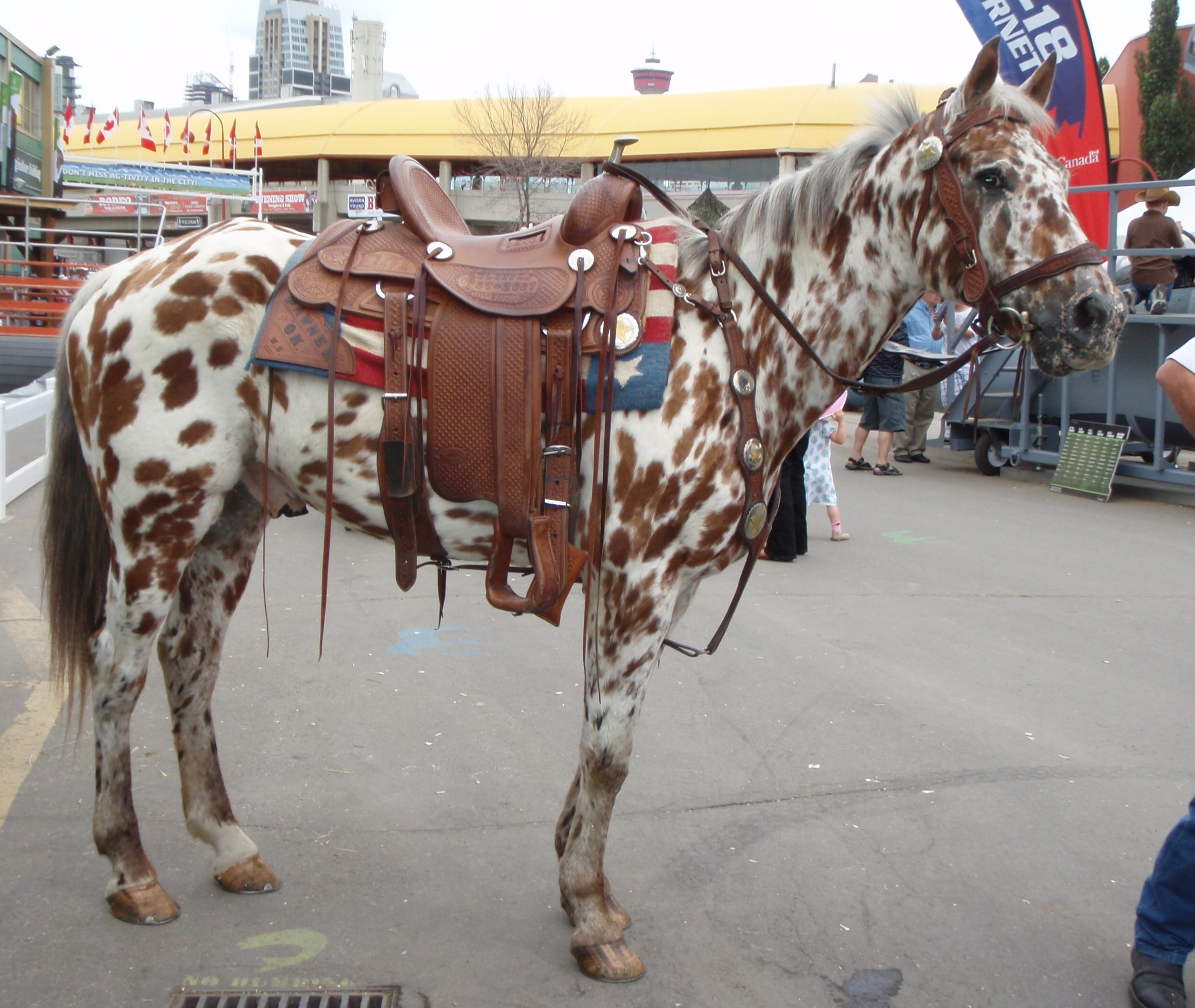 A leopard-spotted Appaloosa in Stampede Park at the Calgary Stampede.